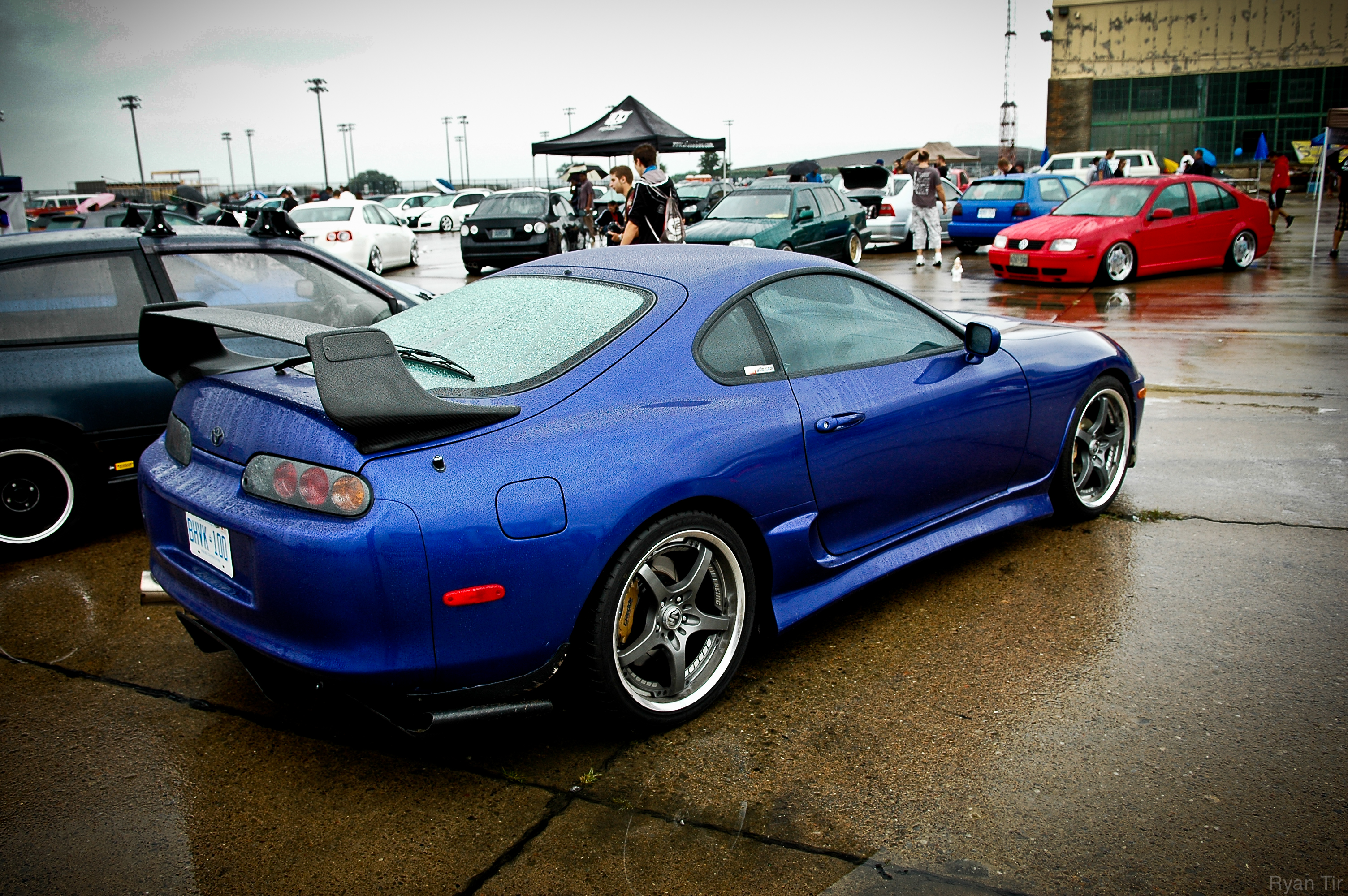 Toyota Supra in Donsview Park Toronto (Canada) in the rain.